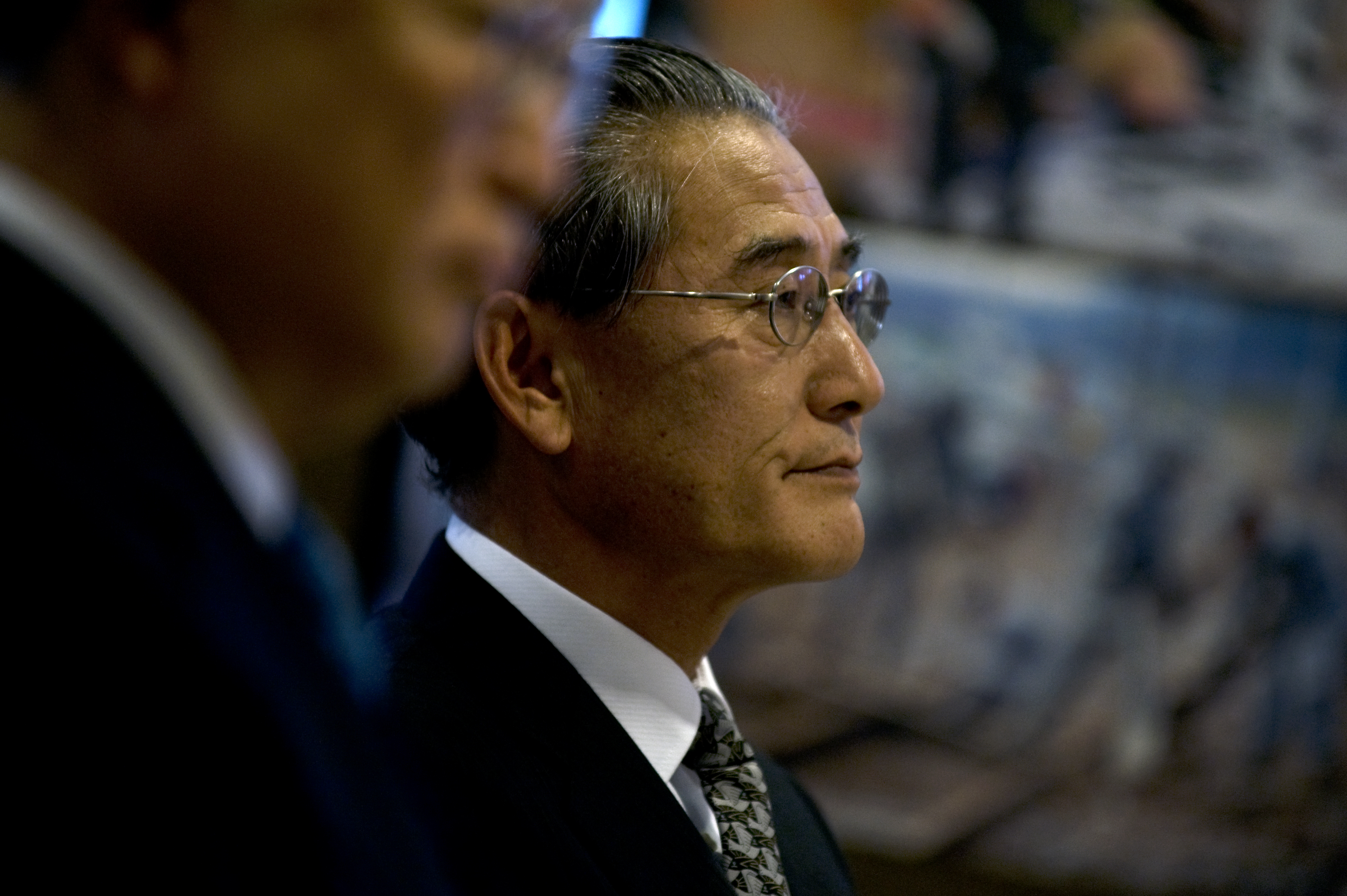 Toshirō Ozawa, Ambassador to the International Organizations in Vienna, attended the Commemoration Ceremony on the occasion of the First Anniversary of the Great East Japan Earthquake and the Opening of a Photo Exhibition "Tohoku Region; Rebuilding for a Better Tomorrow" at the Vienna International Centre in Vienna City, Vienna State on March 12, 2012.